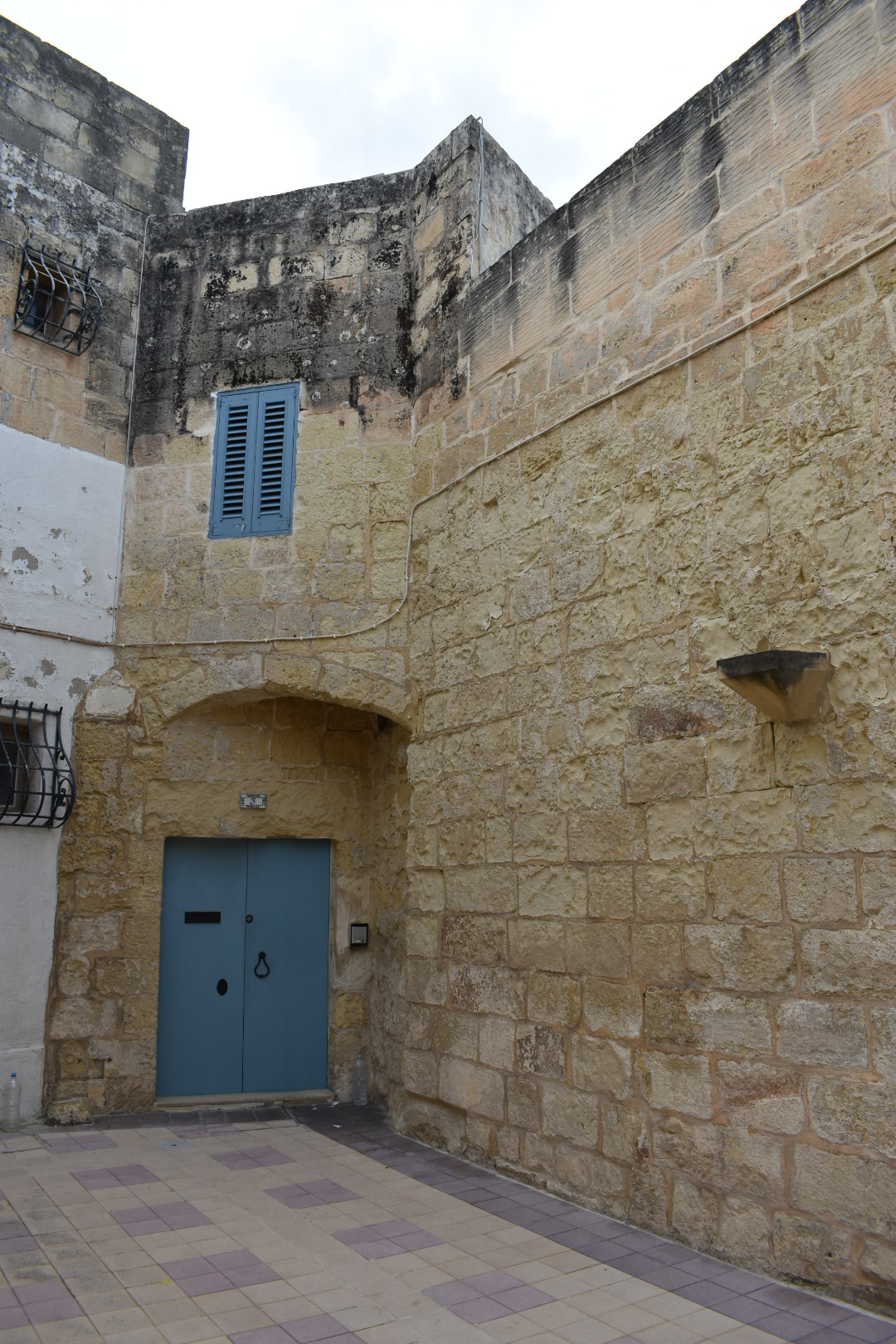 Vernacular housing in Attard The property was featured by the NYT, described as a 17th century farmhouse - Zammit Lupi, Darrin (24 February 2016). "House Hunting in ... Malta: A 17th-Century Farmhouse in Malta". New York Times.